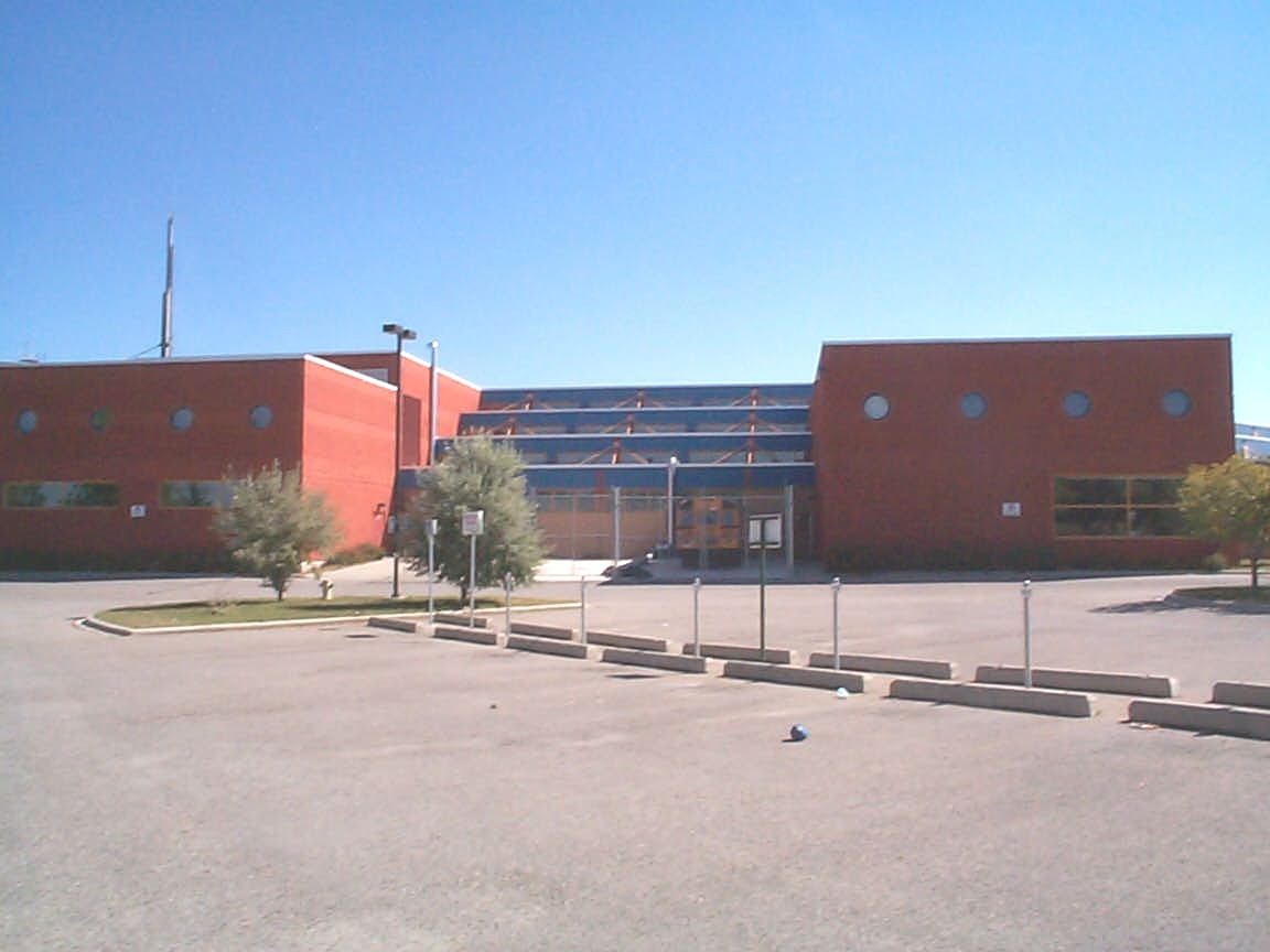 Lester B. Pearson High School is a public senior high school operated by the Calgary Board of Education. Its address is 3020 - 52 Street N.E., Calgary, Alberta, Canada, T1Y 5P4.